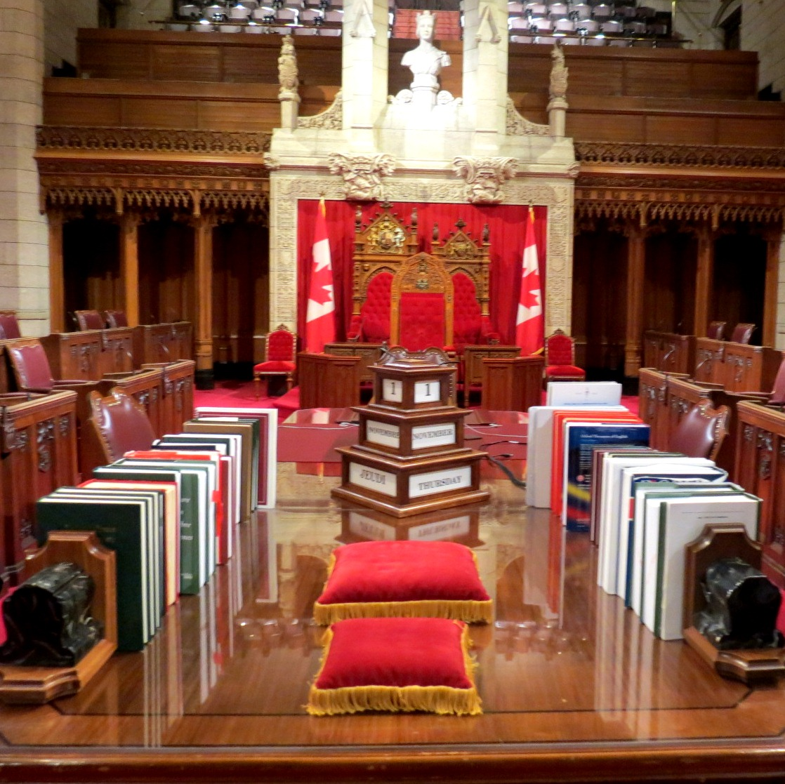 The Senate of Canada